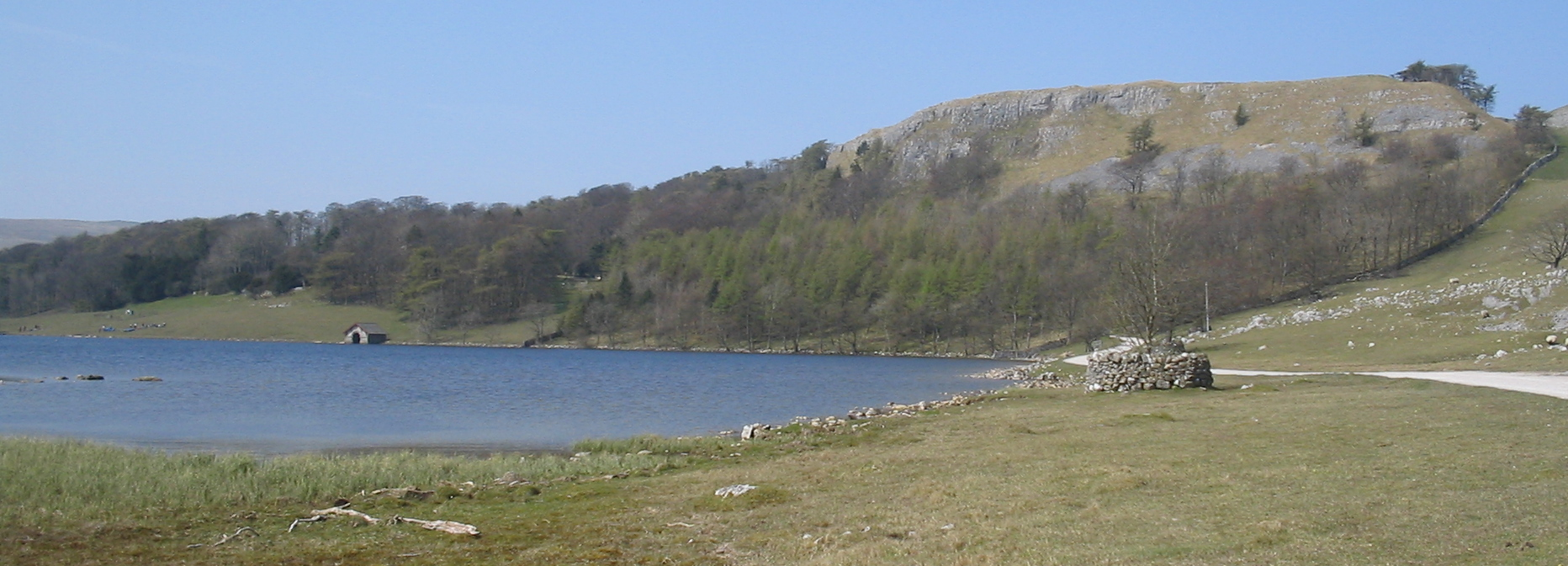 The northeast corner of Malham Tarn. Possibly the cliff is Highfolds Scar. David Benbennick took the photo on Sunday, April 24, 2005 at 1:50 PM (12:50 UTC).